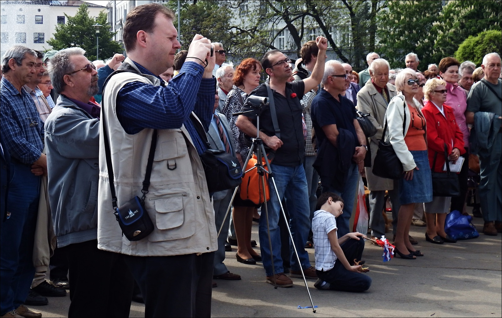 Worker's Day Meeting in Brno, organizedy by Communist Party of Bohemia and Moravia.